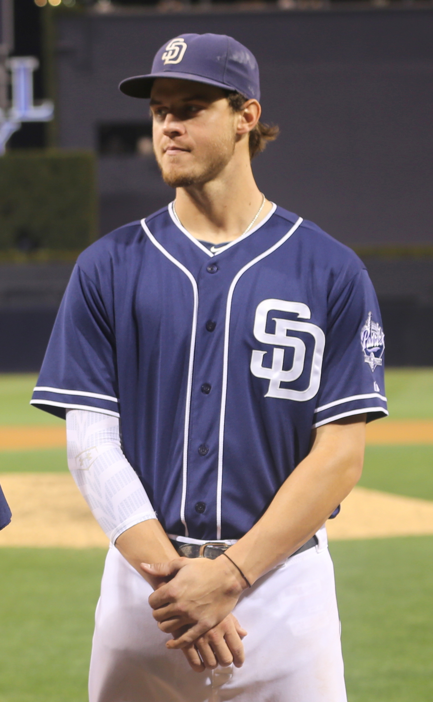 Wil Myers